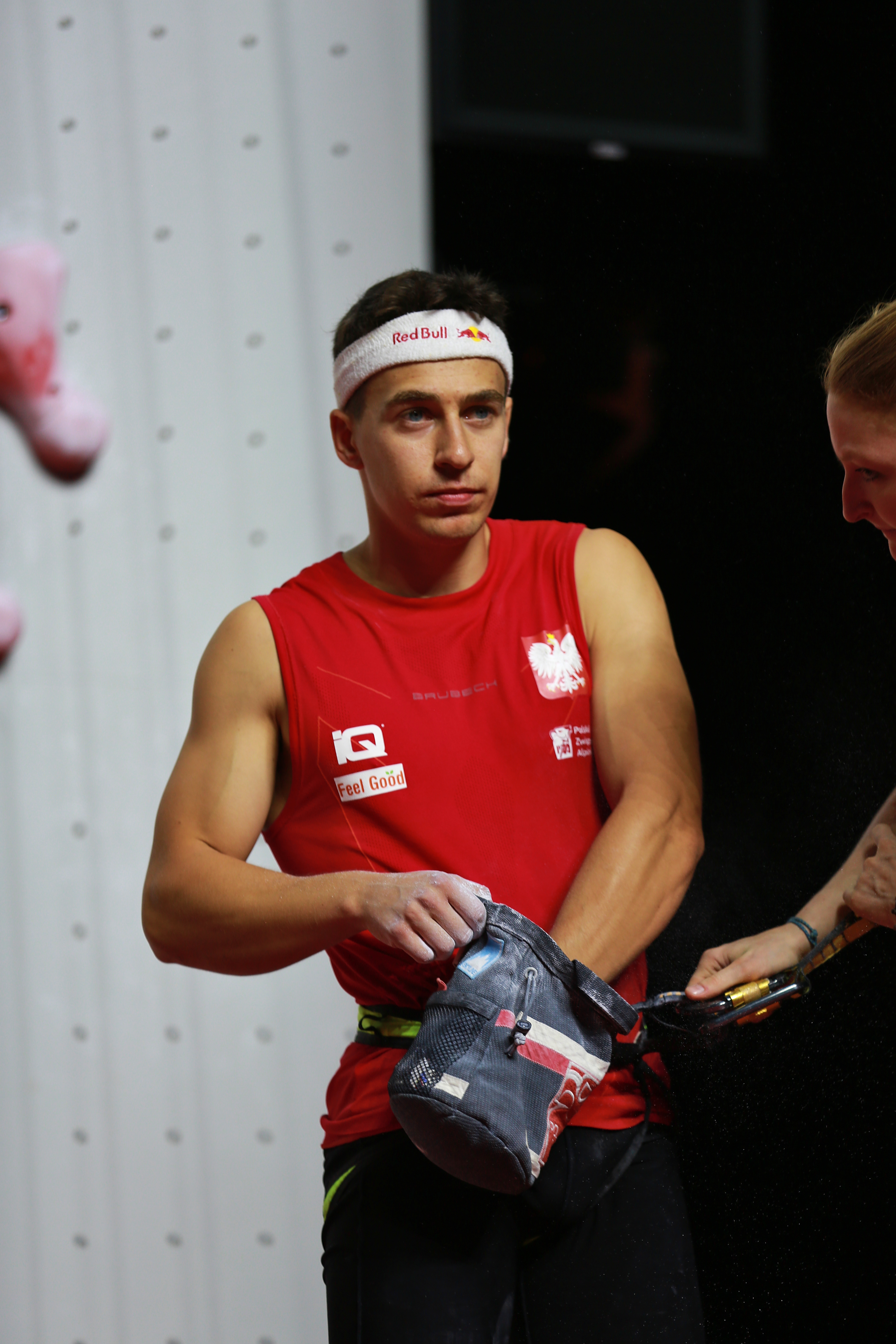 Climbing World Championships 2018 Speed Eighth-finals